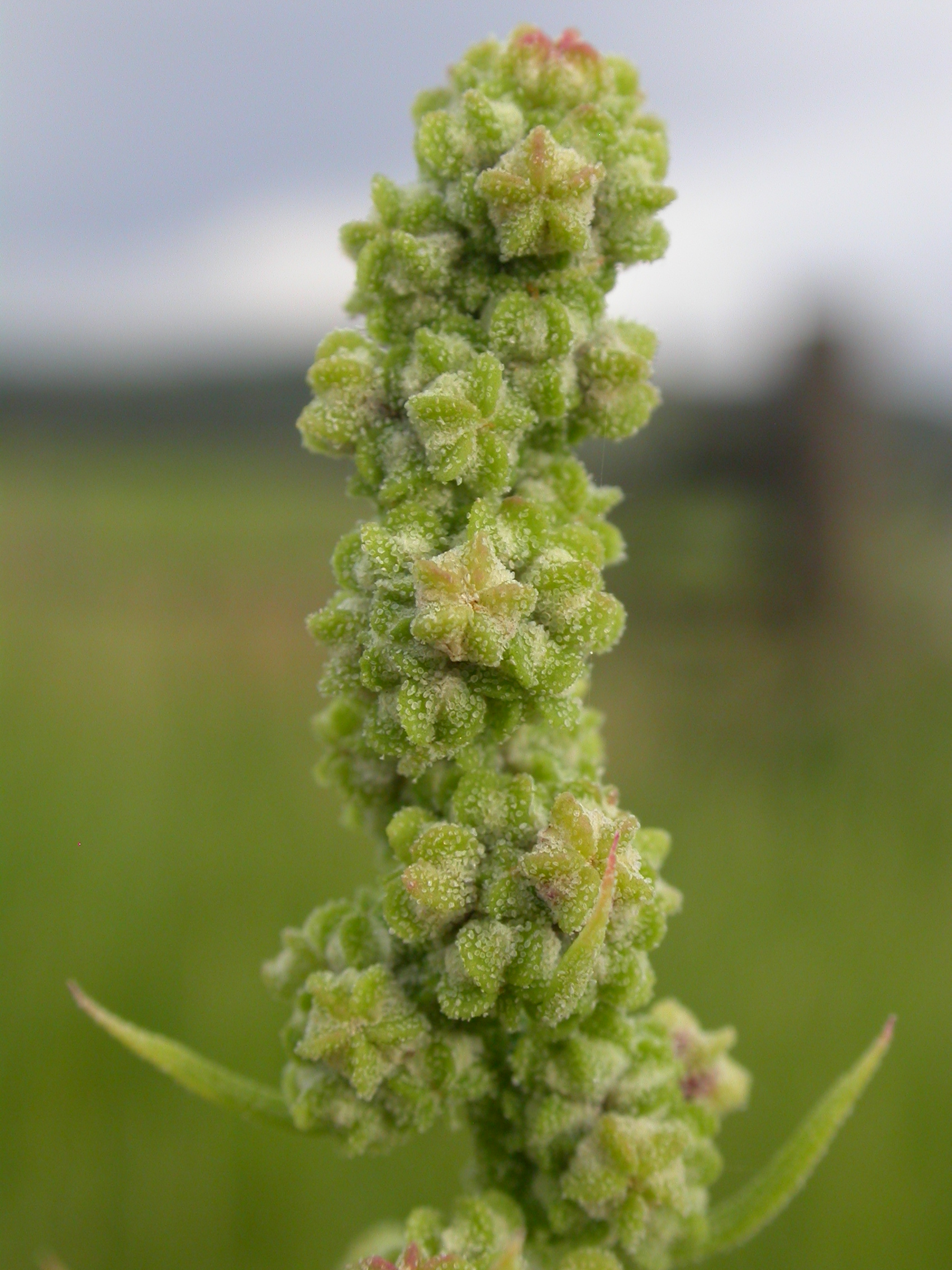 Chenopodium berlandieri Moq. - pit-seeded goosefoot